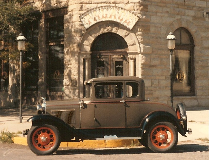 1931 Ford Model A Deluxe Coupe owned by Sistine & Randy Castellini